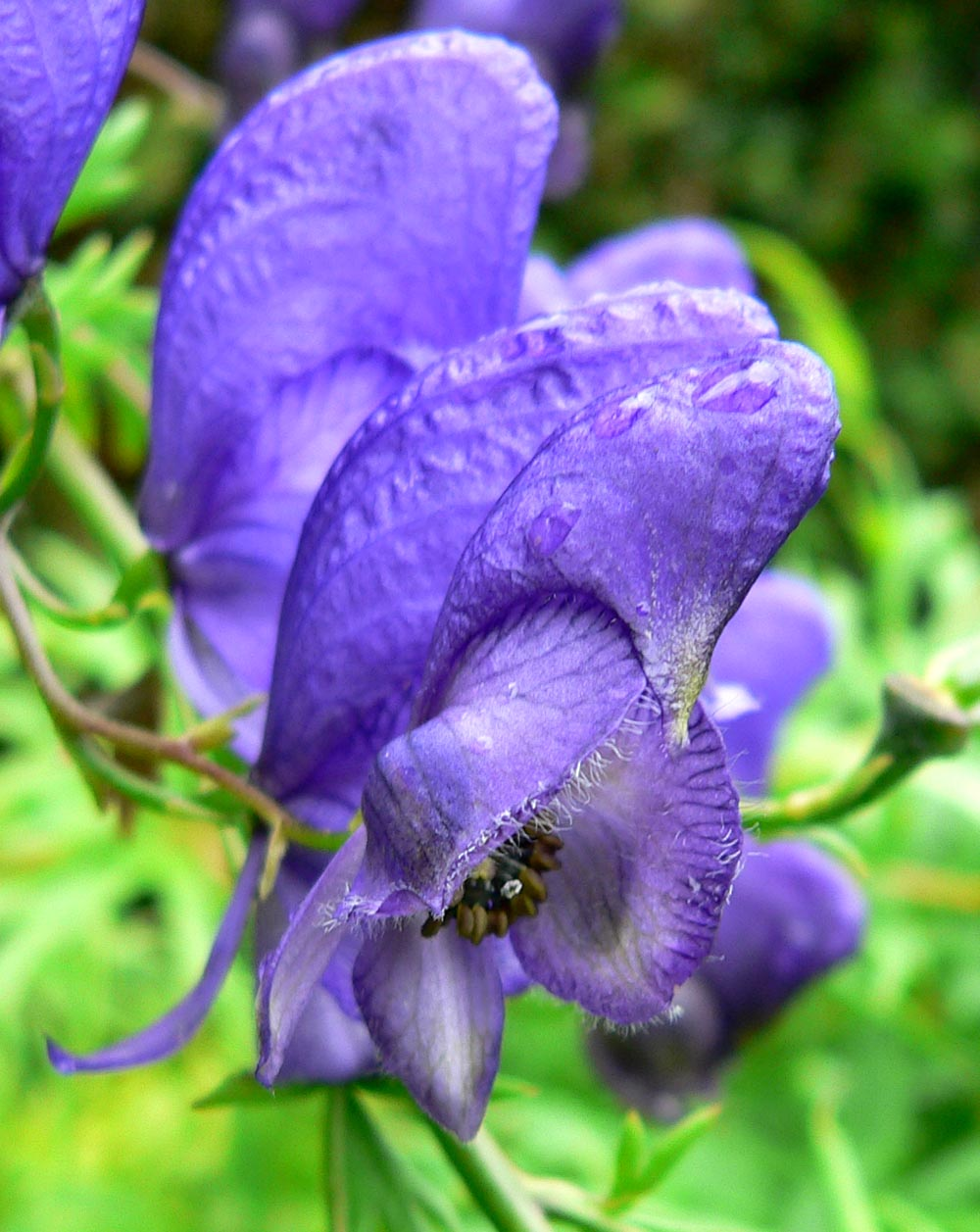 Photo of Aconitum napellus at the UBC Botanical Garden